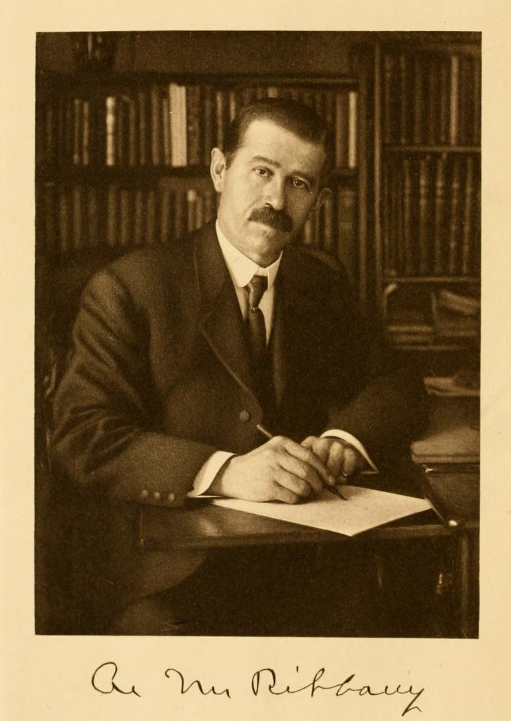 Portrait of Abraham Mitrie Rihbany in A Far Journey (1914), Houghton Mifflin Company, Boston